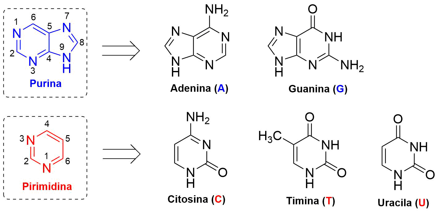 Purinas e pirimidinas e seus derivadas